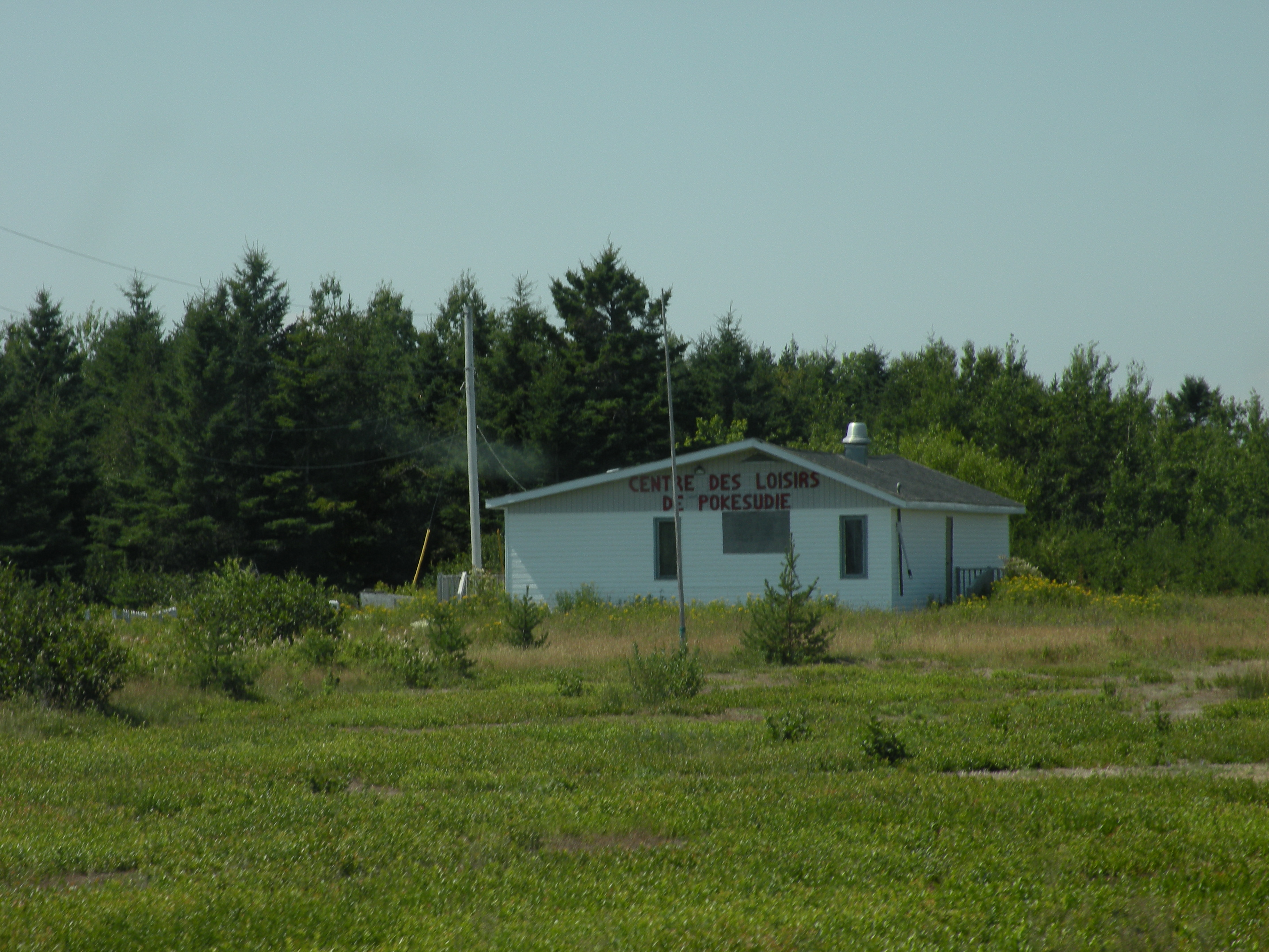 Community center in Pokesudie, New Brunswick, Canada.